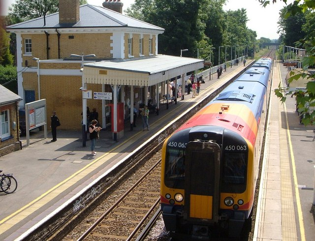 Chiswick Station. A view of 1139490 from the footbridge. A train has just pulled in from Waterloo. The attractive building is used as offices, but not by the railway.